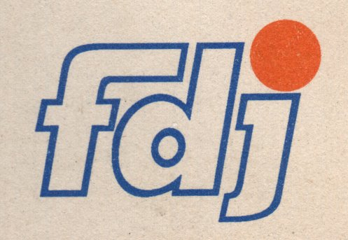 Temporary Logo of the FDJ (Free German Youth) movement around 1990